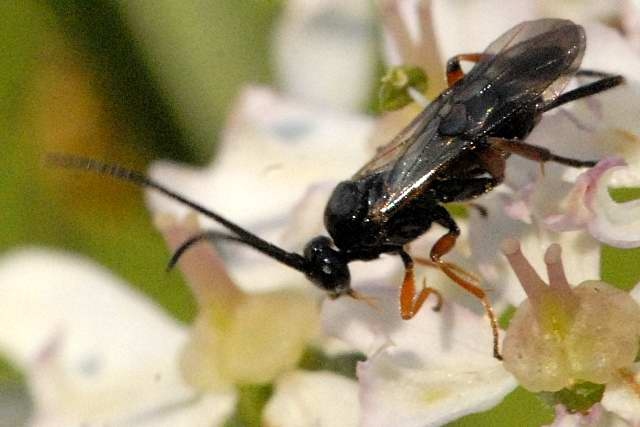 Triaspis luteipes from Commanster, Belgian High Ardennes .